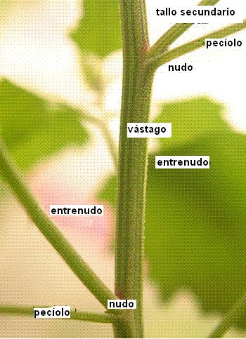 Stem diagram, Spanish version